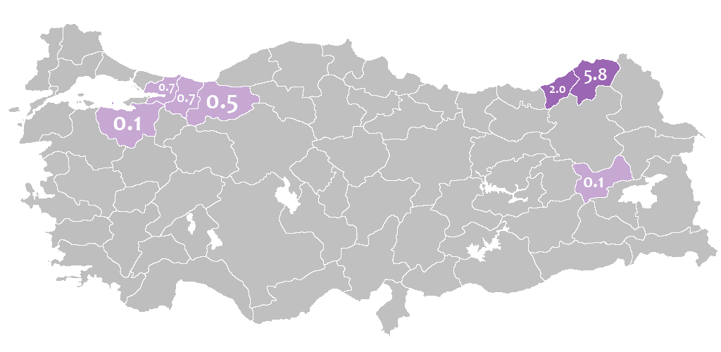 This map shows the distribution of people who spoke Laz in 1965's Turkey.